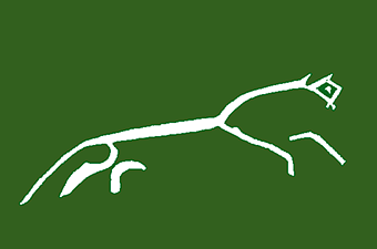 Layout of the Uffington White Horse as seen from above